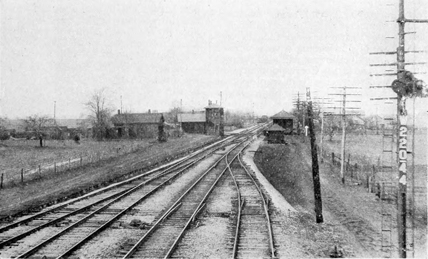 Looking west on Baltimore and Ohio Railroad line in Alida, Indiana.